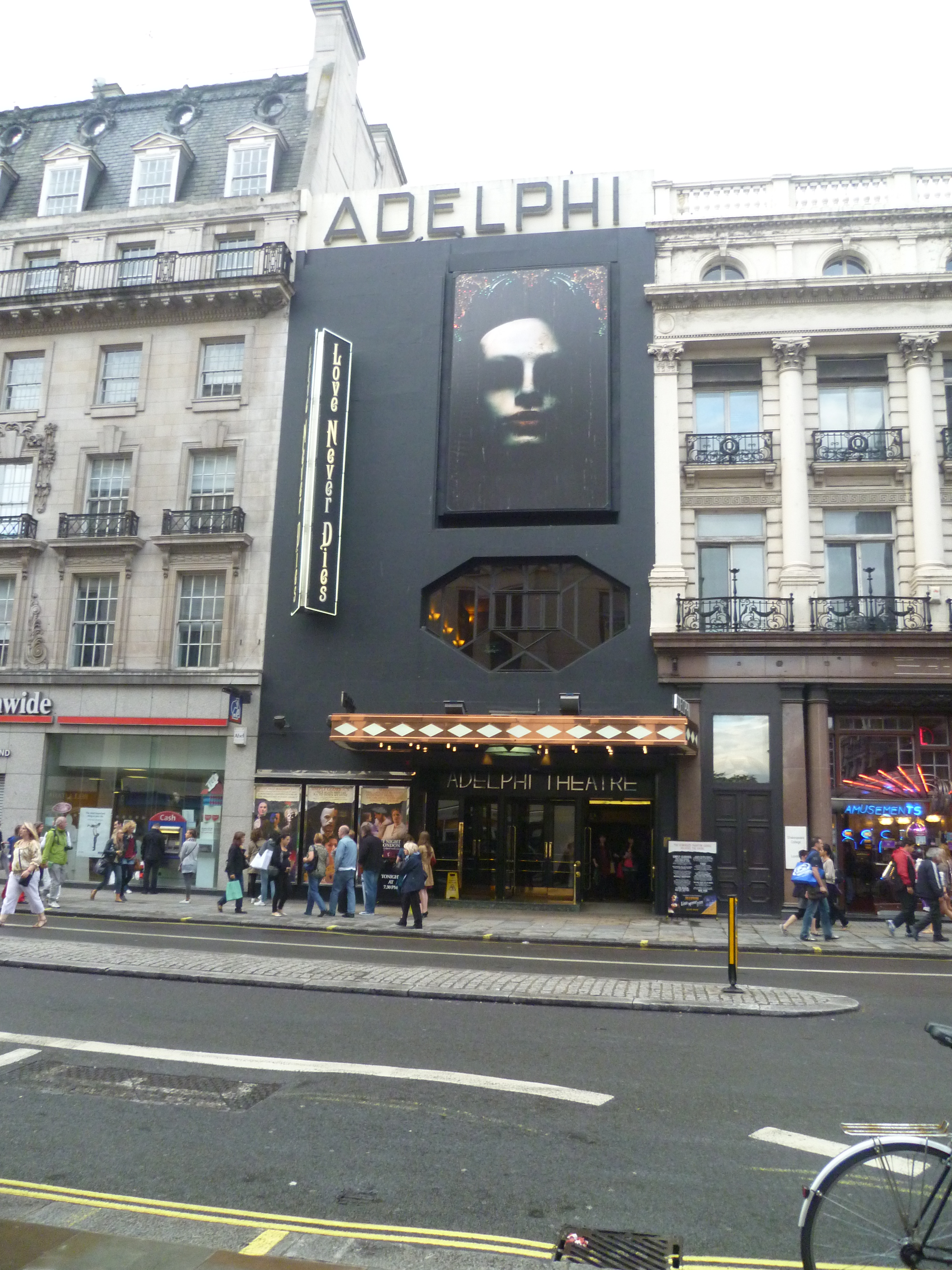 The Adeplphi Theatre as it appeared in August 2011.